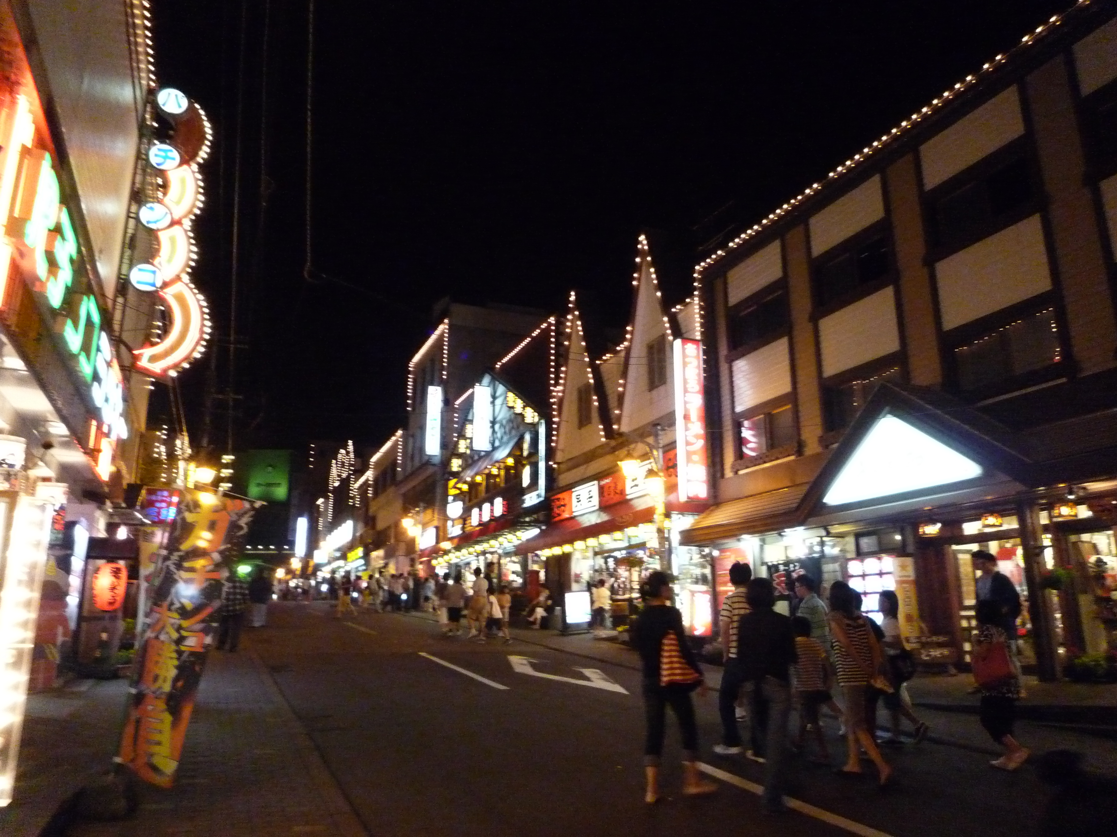 town of noboribetu hot spring